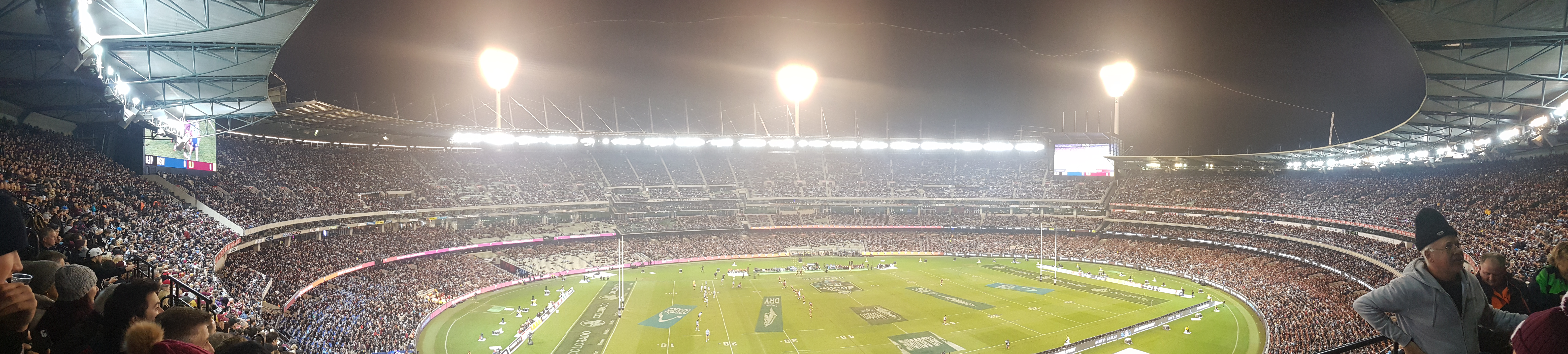 Panoramic photo of the MCG during the 1st game of the 2018 State of Origin series